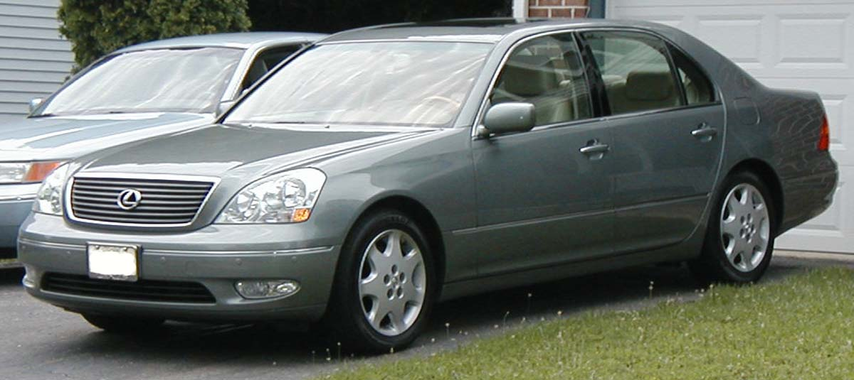 2001-2003 Lexus LS430 photographed in USA.